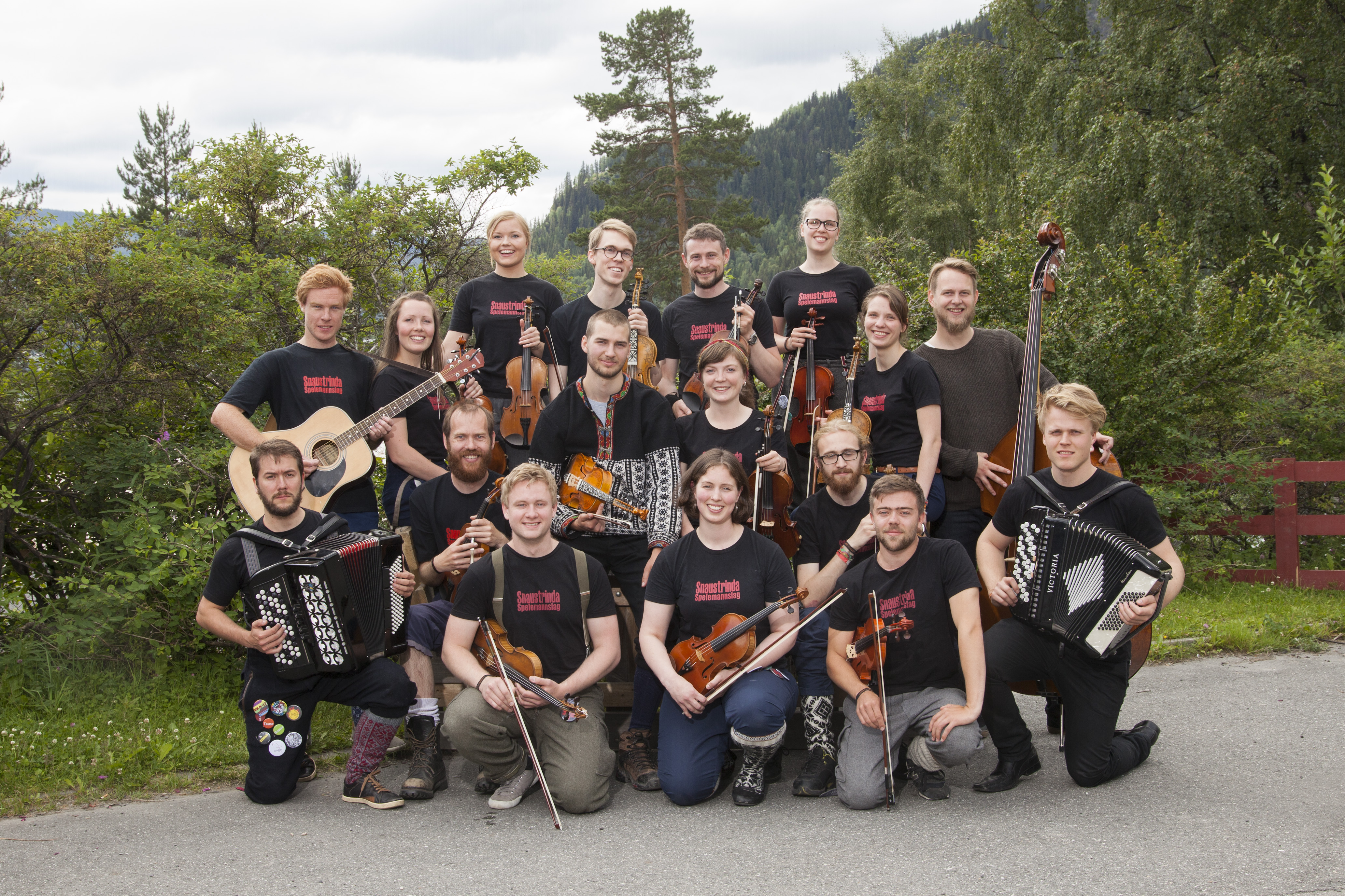 Snaustrinda